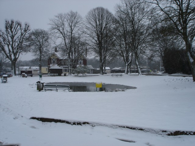 Photograph of Tatsfield (England) in the snow, taken in the Winter of 2005 by Colin Hoad.